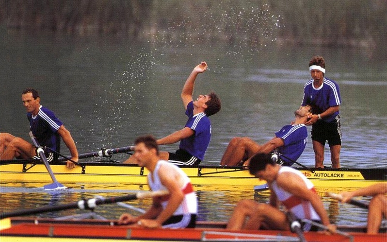 Romanian coxed four at the 1992 Olympics